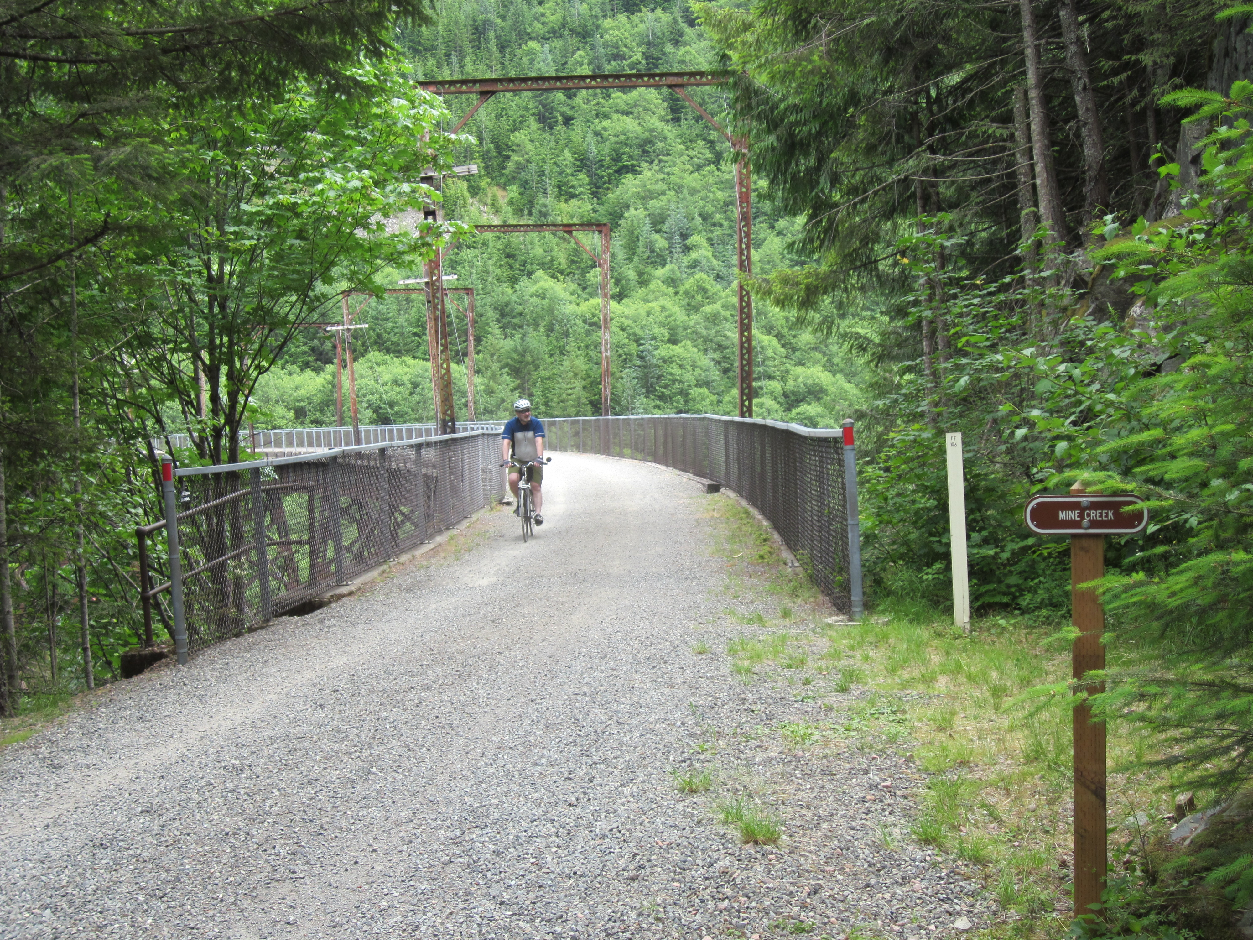 Mine Creek Trestle, on the John Wayne Pioneer Trail, in Iron Horse State Park, Washington state. This former railroad trestle retains the steel gantries that once held the overhead electrical wires for the Milwaukee Road electric trains that once crossed it.